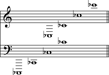 Notes, C Flat